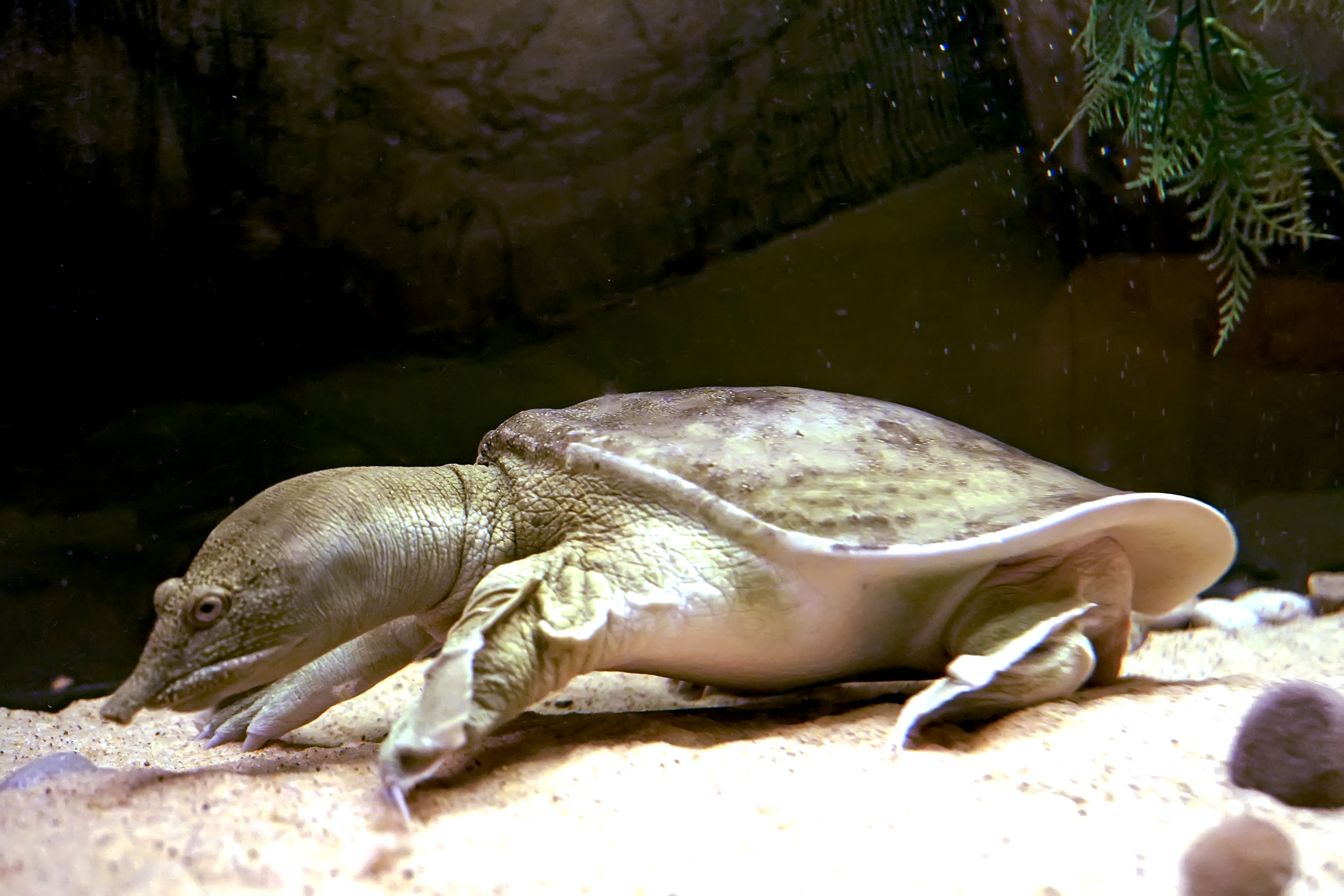 Chinese Softshell Turtle is a softshell turtle that is found in China and Taiwan, with some in a wide range of other Asian countries, as well as Spain, Brazil and Hawaii. The Chinese softshell turtle is a vulnerable species, threatened by habitat loss and collection for food such as turtle soup. Millions are now farmed, especially in China, to support the food industry, and it is the world's economically most important turtle.